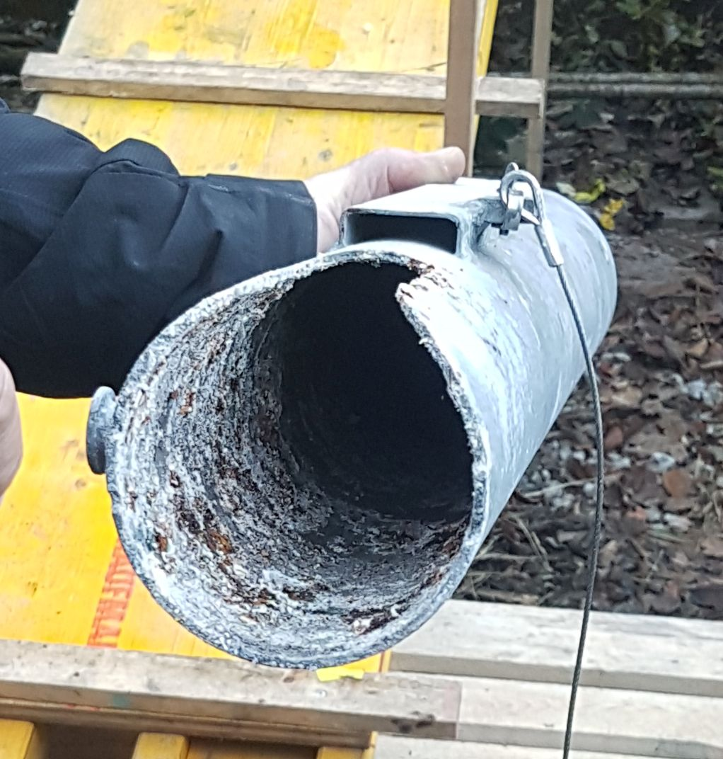 Lawienenwaechter launch tube (Avalanche guardian launch tube).